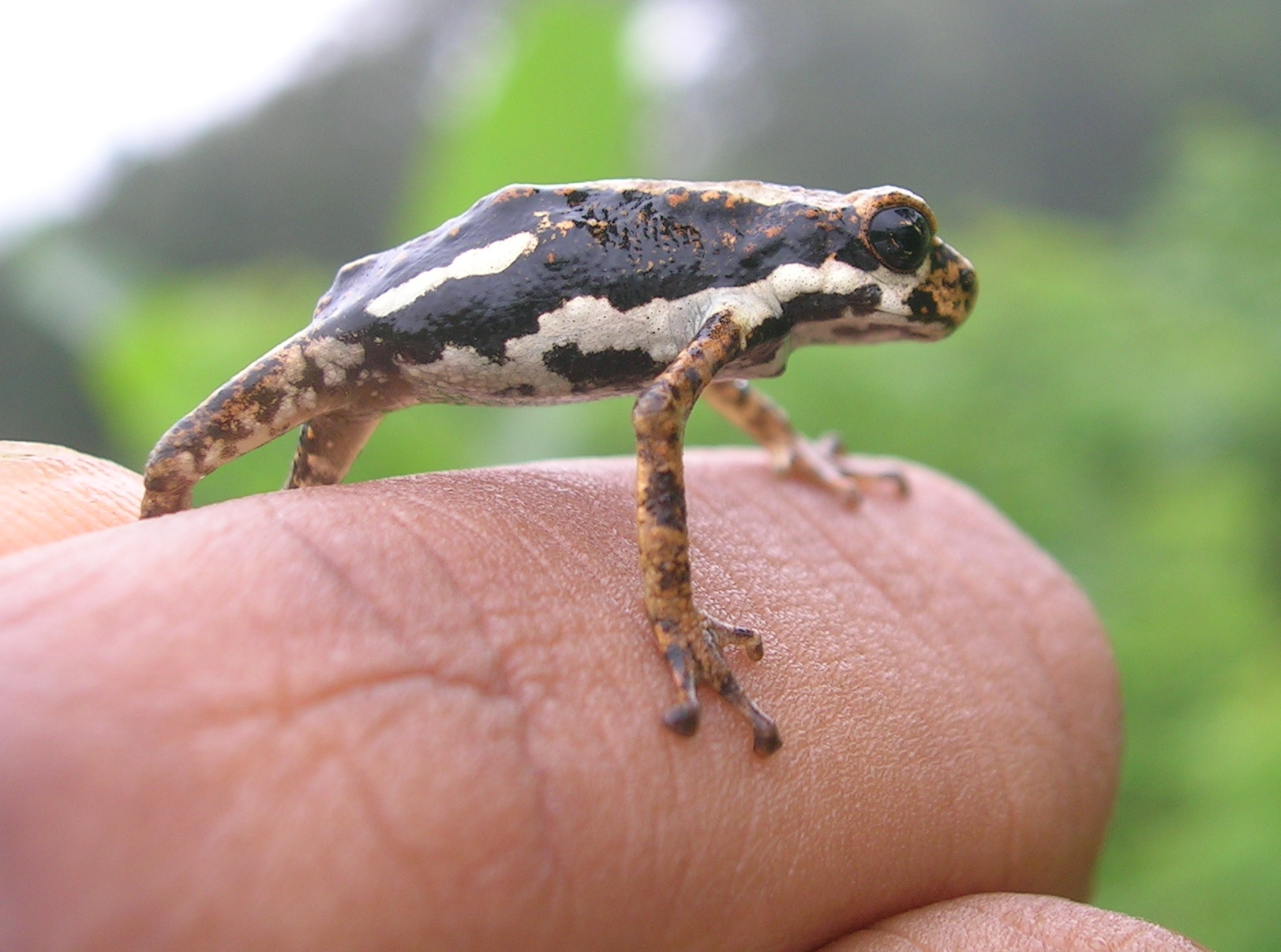 Pedostibes tuberculosus, Malabar Tree Toad (from Wayanad)